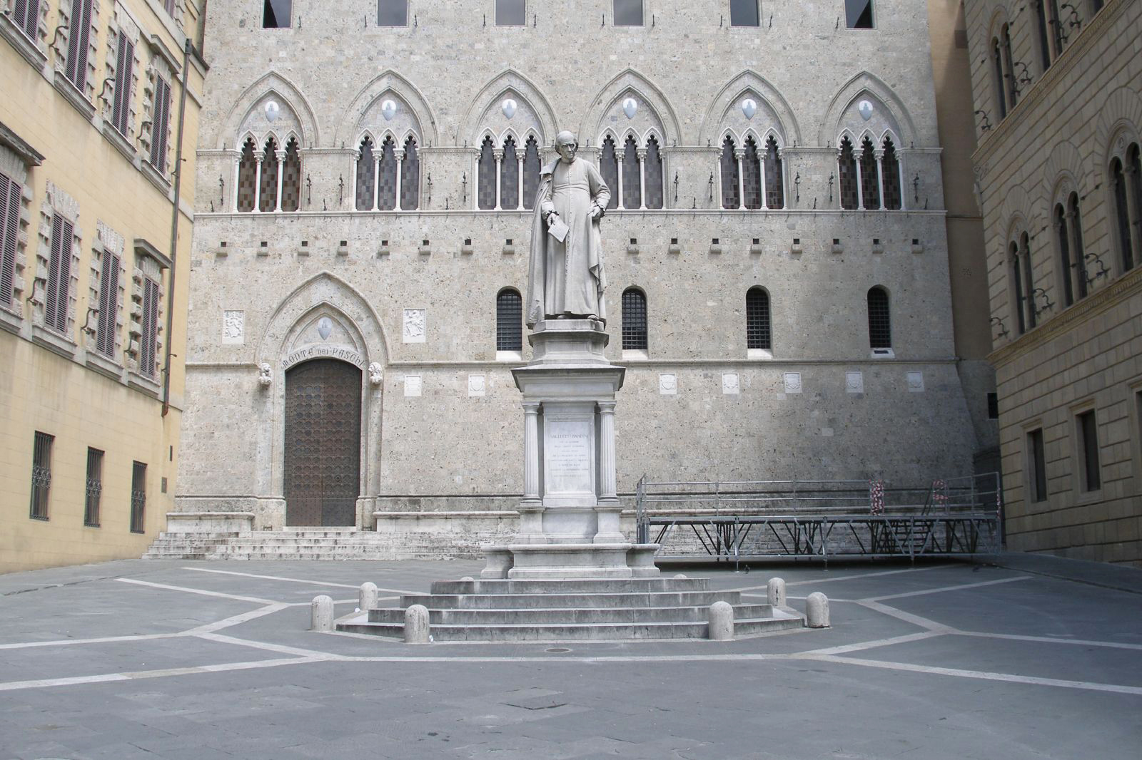 Monte dei Paschi, Siena